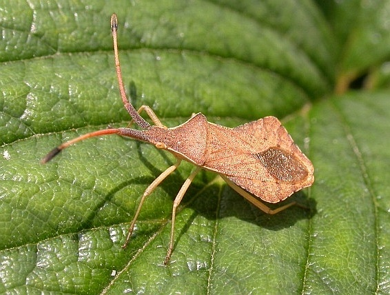 Syromastus rhombeus, Gradignan, Gironde, France